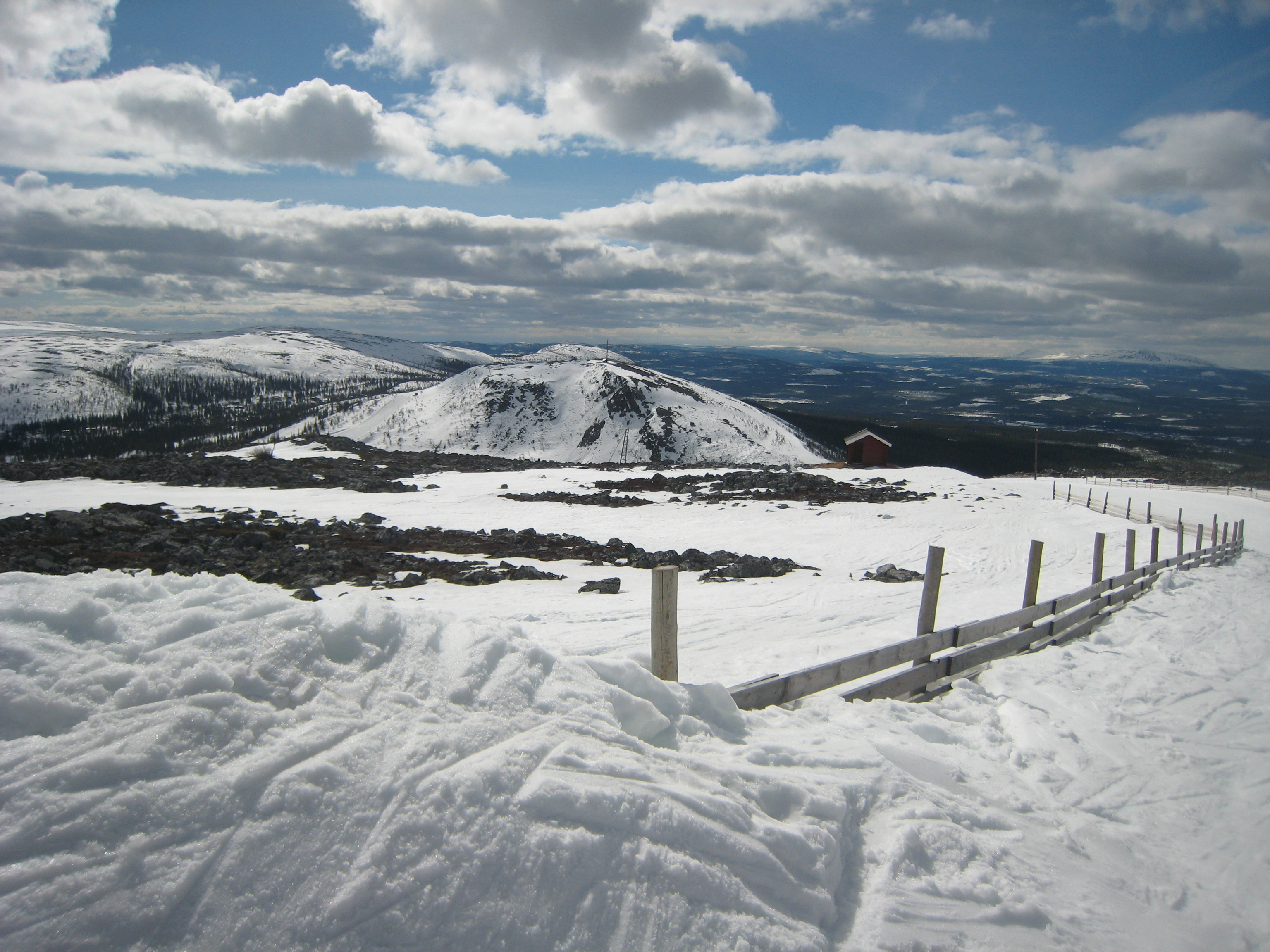 Vemdalsskalet